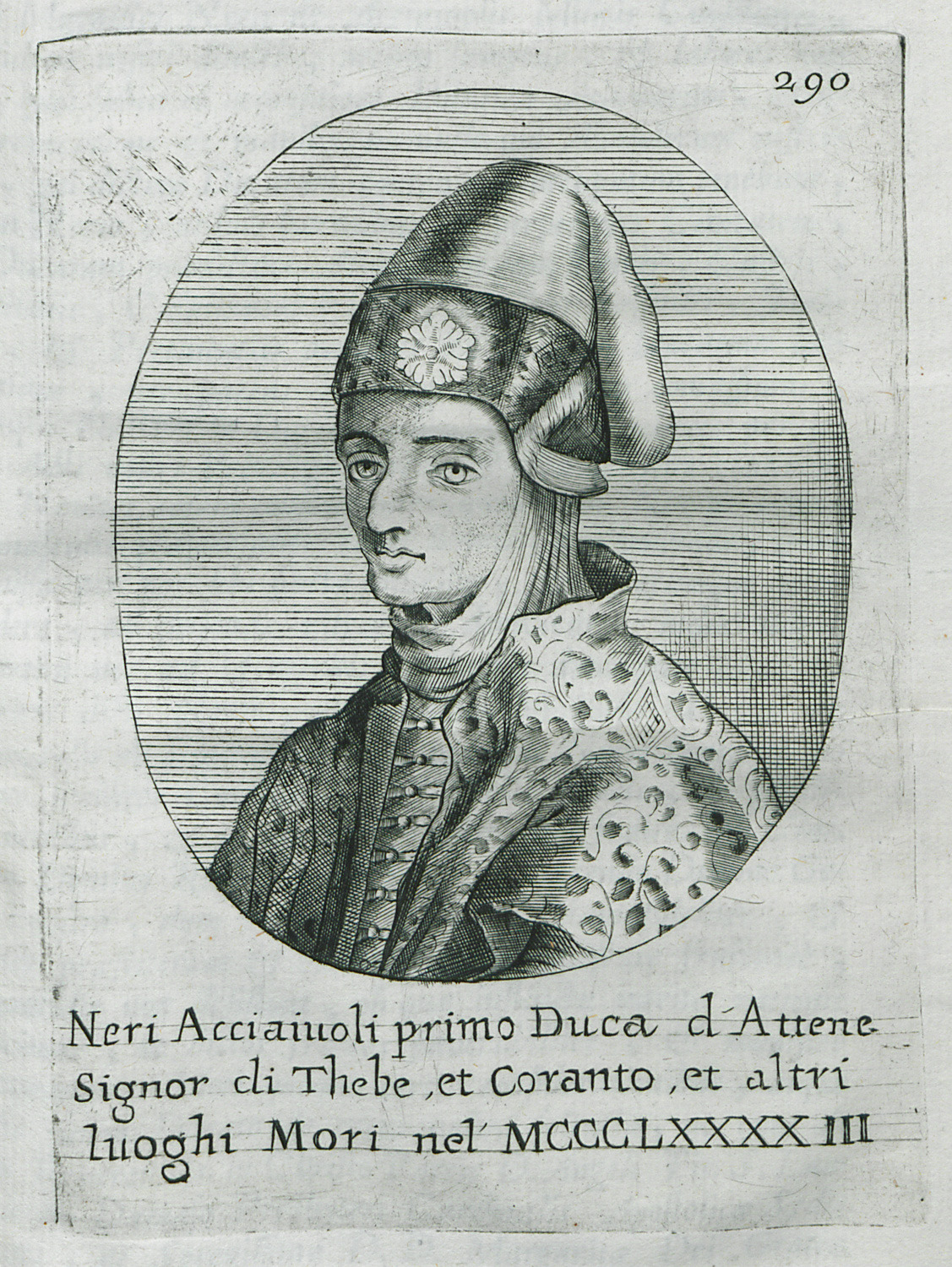 Illustration from Atene Attica Descritta da suoi Principii sino all’acquisto fatto dall’Armi Venete nel 1687…, Venice, Antonio Bortoli, 1695 edition, by Francesco Fanelli